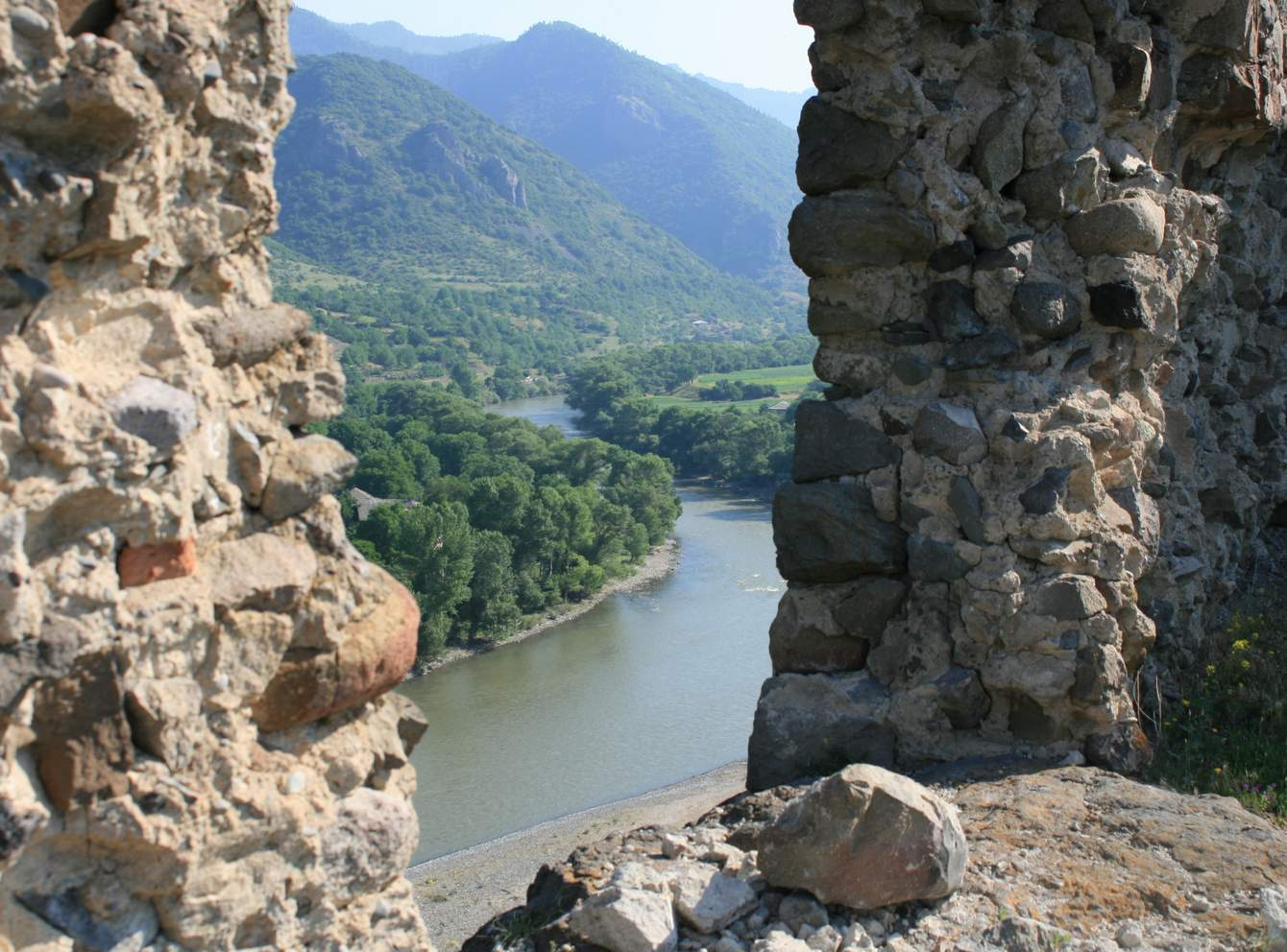 Kura River seen from Atskuri Fortress, Georgia